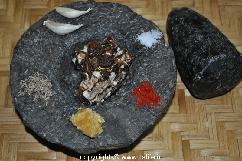 Hunase Chigali preparation